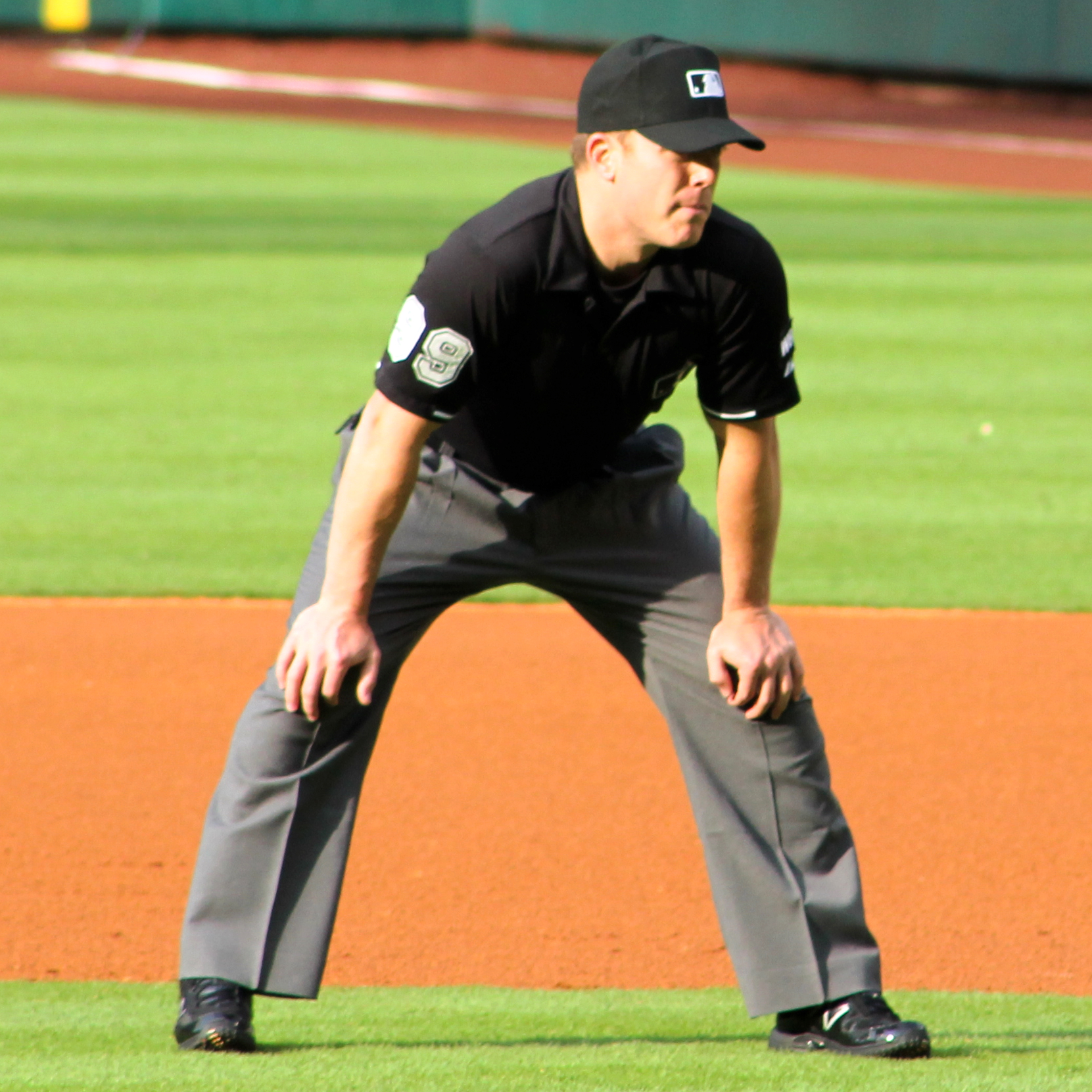 Baseball umpire Toby Basner at an April 2014 game at Minute Maid Park.